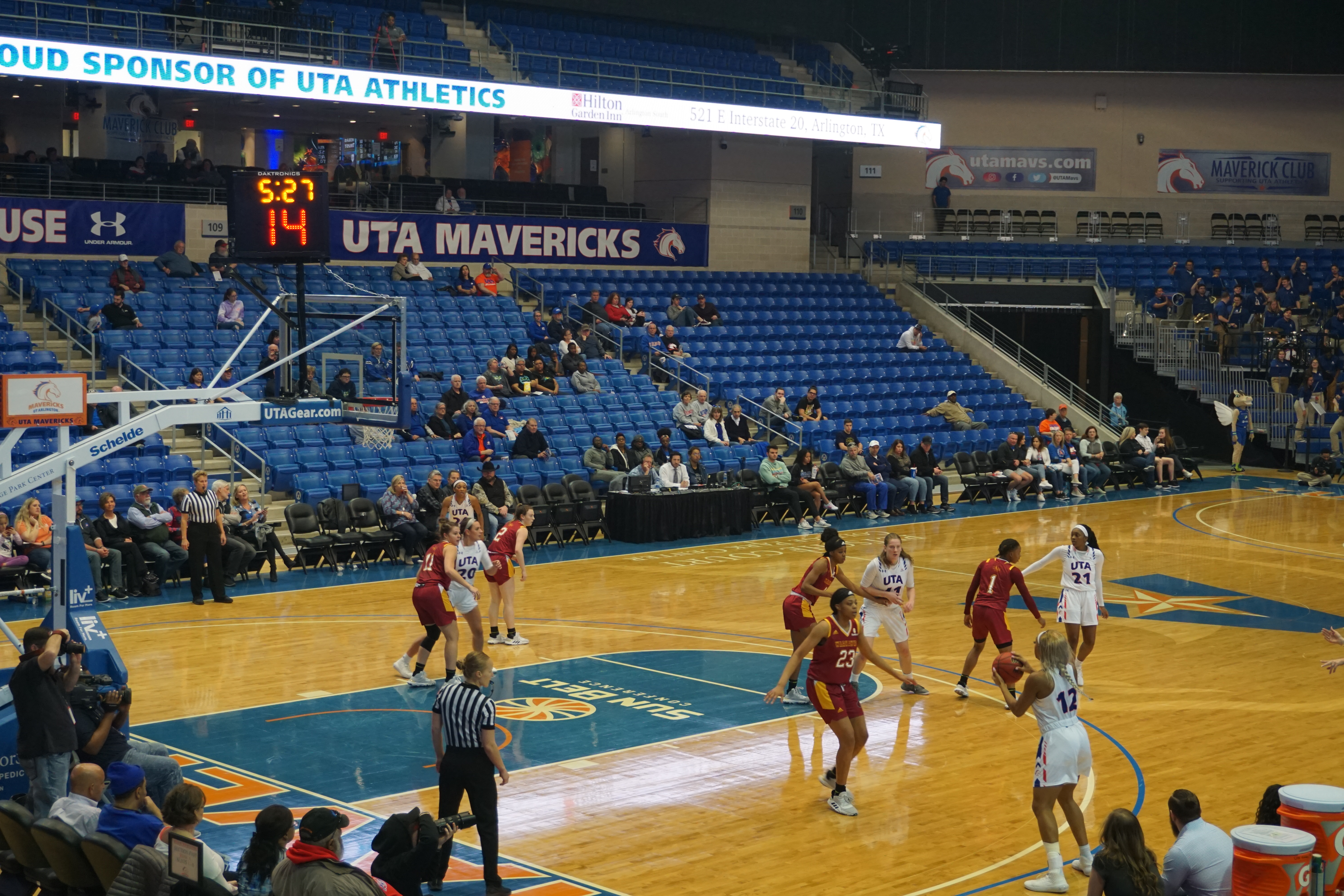 In-game action during the Louisiana–Monroe Warhawks vs. UT Arlington Mavericks women's basketball game at College Park Center in Arlington, Texas (United States). UT Arlington won 72–34.